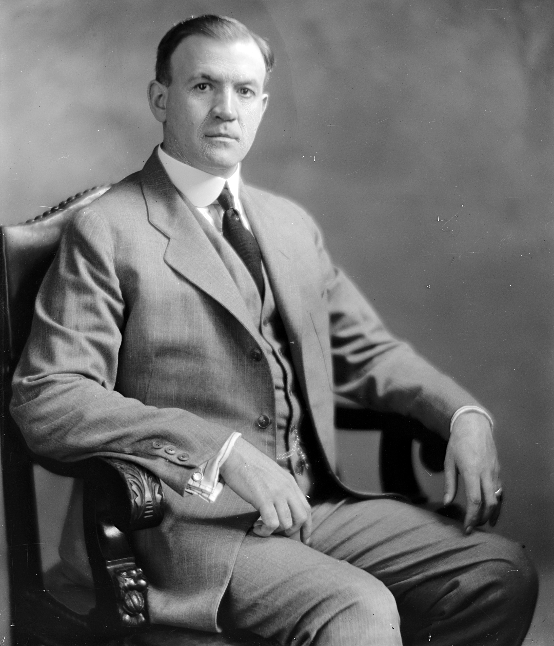 James J. Connolly, US Representative from Pennsylvania